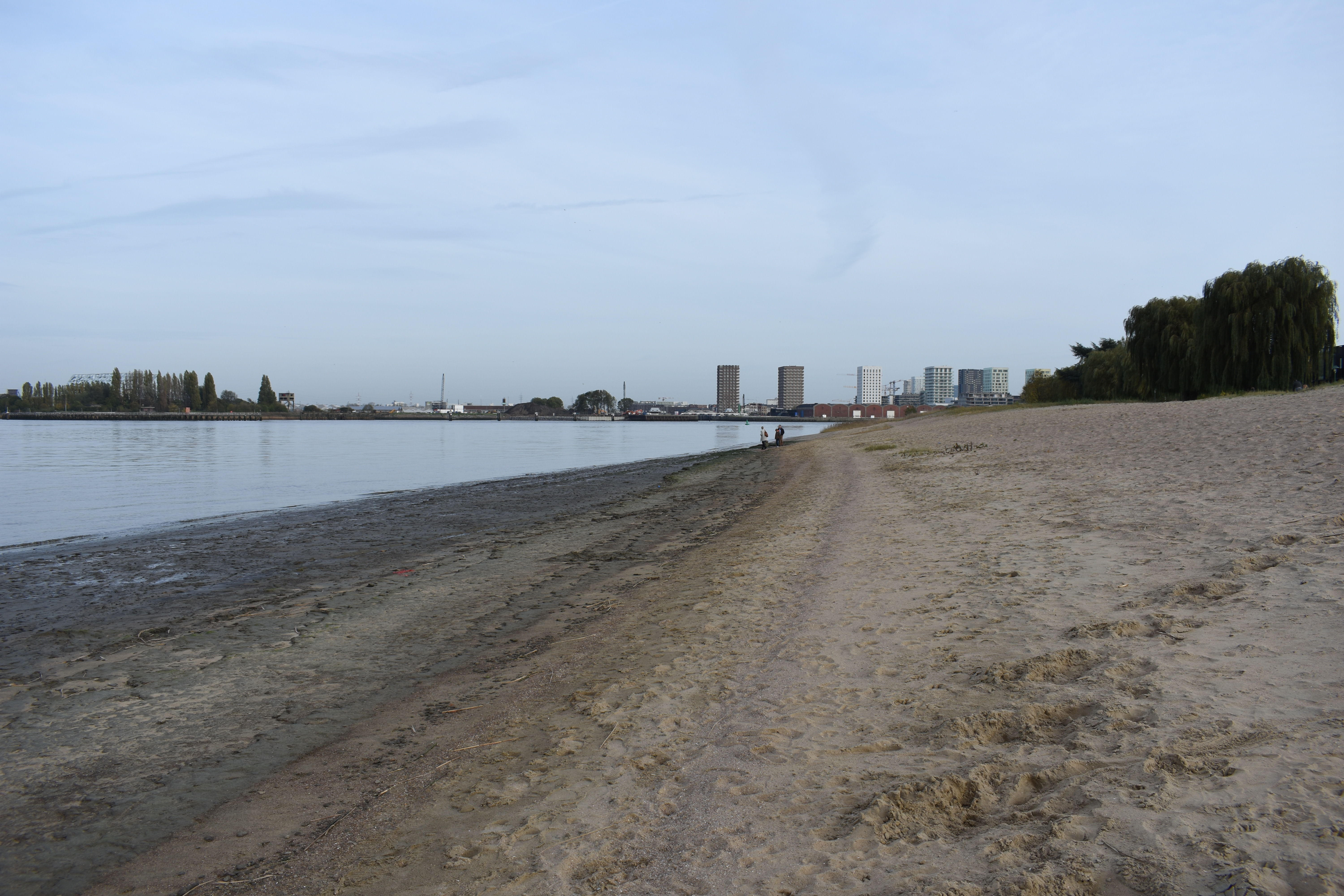 Saint Anna beach, low tide.